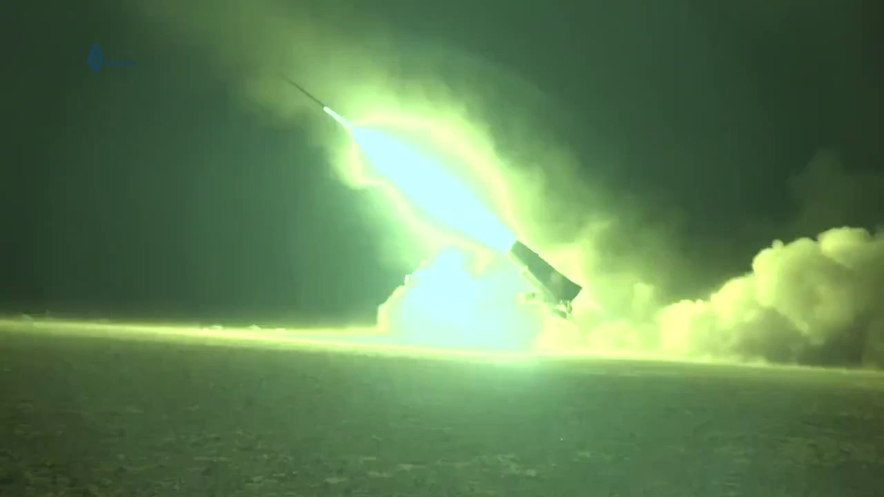 A BM-21 Grad multiple rocket launcher operated by Syrian rebel forces launches rockets at Syrian Army positions in the Syrian Desert.